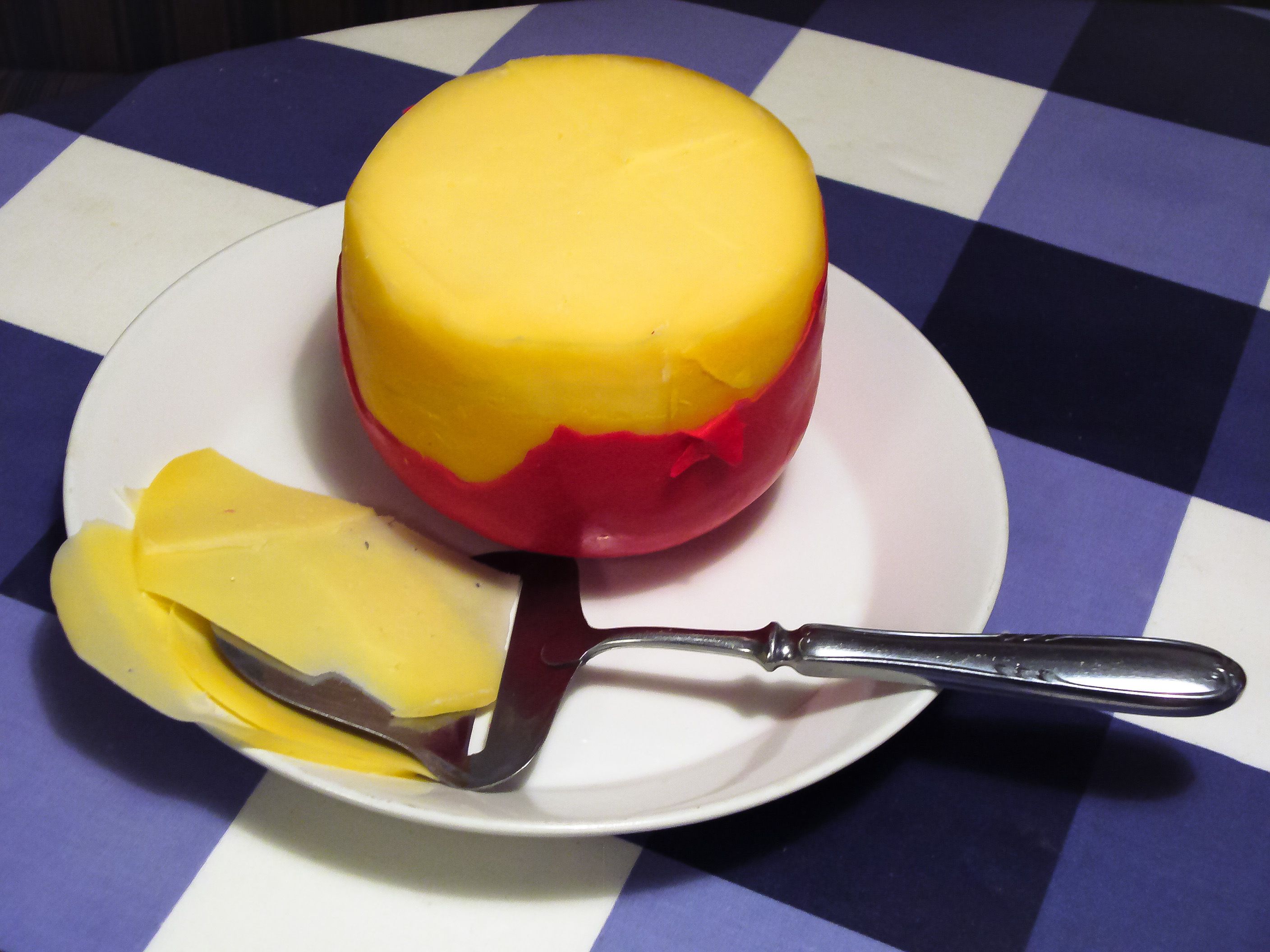 A small Edam cheese and a cheese slicer.